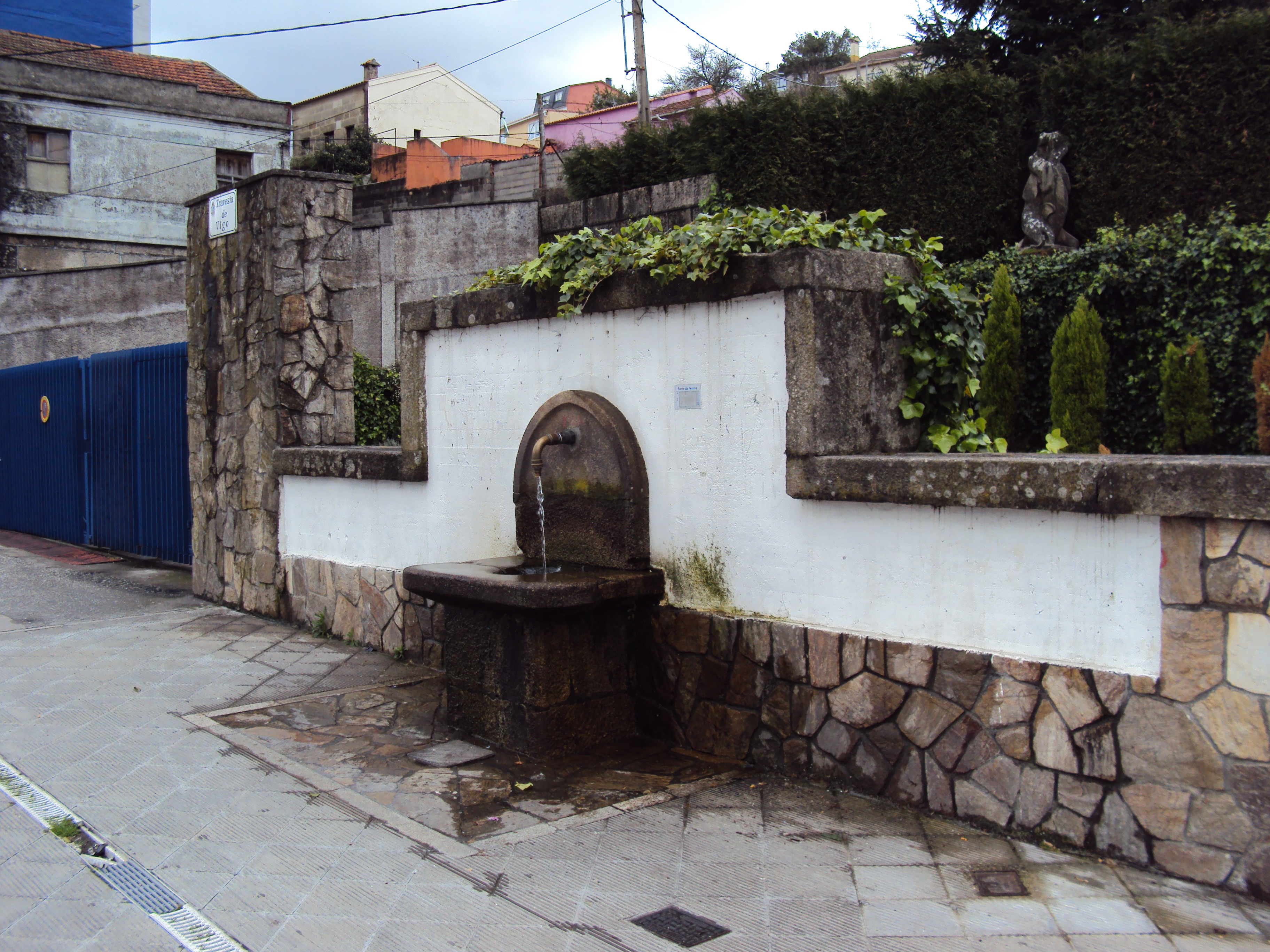 Fountain of Fenosa, Teis, Vigo, Galicia.